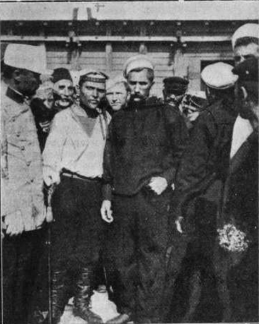 Leader of the Potemkin revolt (in white shirt)